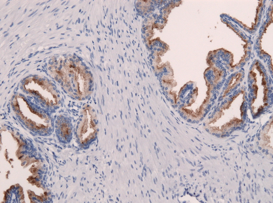 Immunohistochemistry of prostate specific antigen (PSMA) in normal prostate glands.